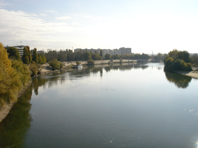 View of the Dniester(Nistru) river in Tiraspol